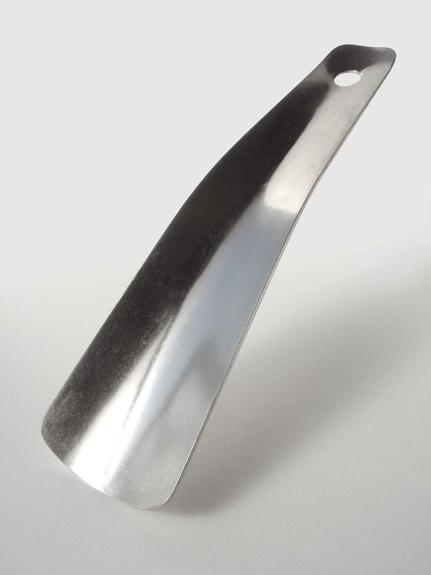 Shoehorn